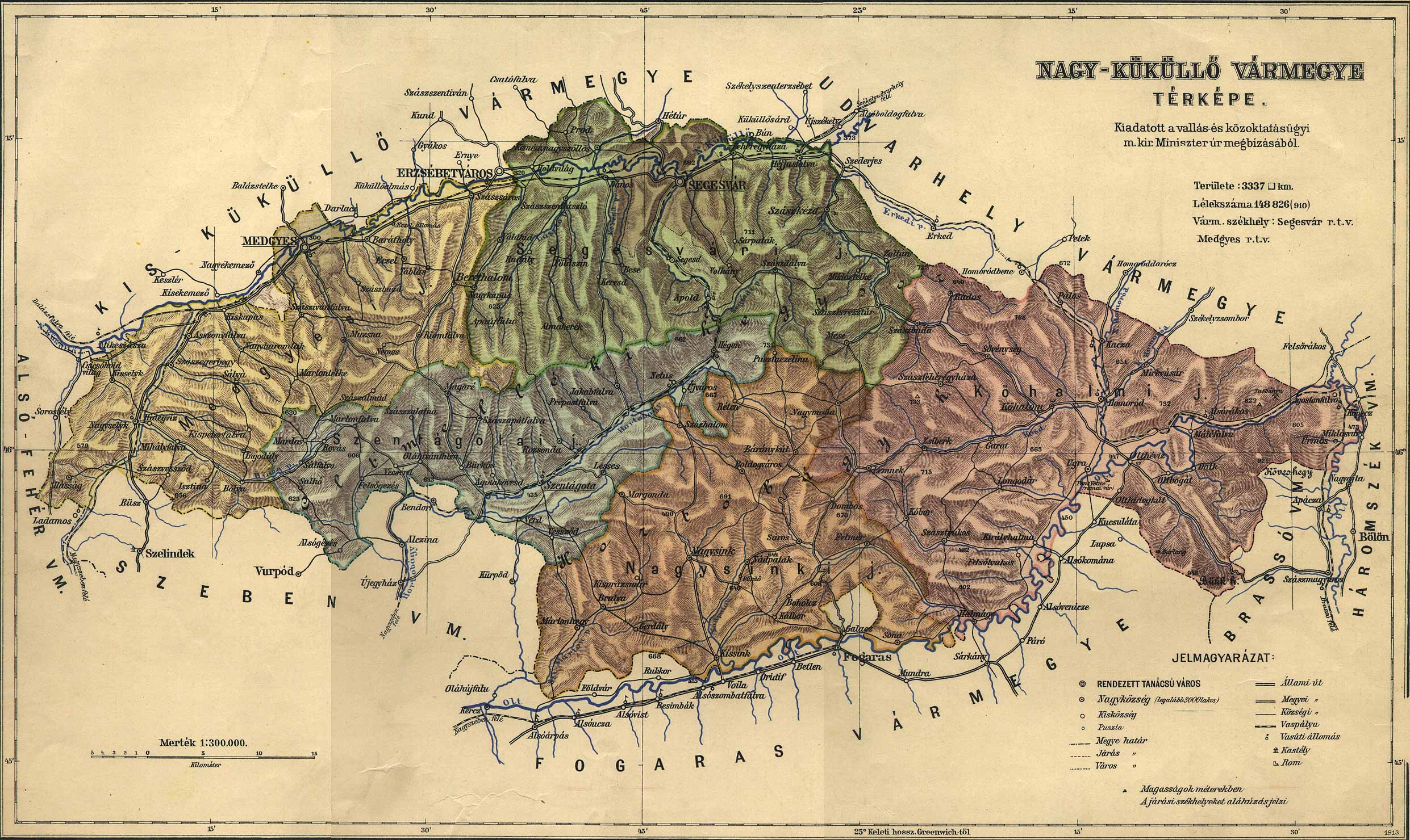 Administrative map of the county of Nagy-Küküllő in the Kingdom of Hungary